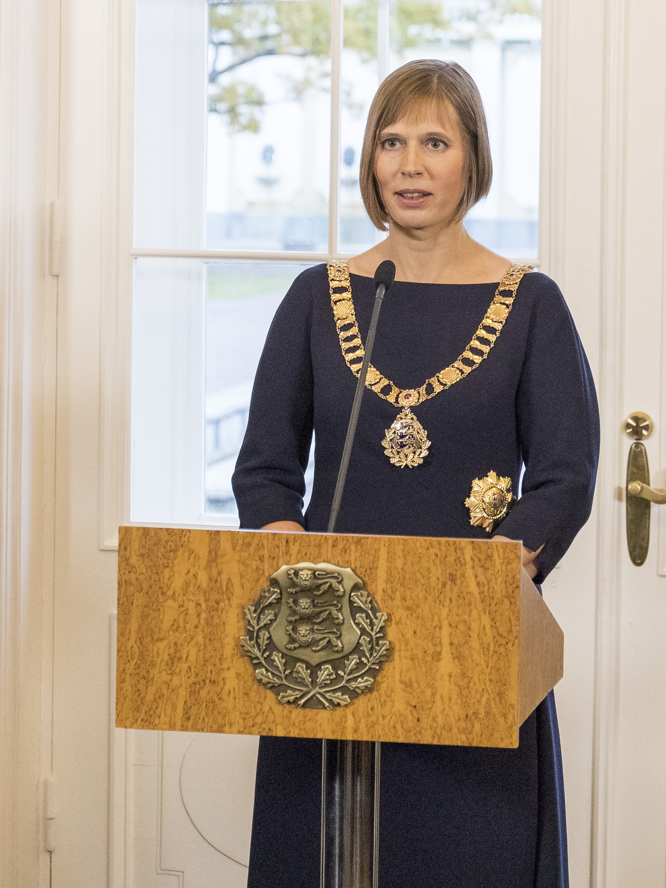 Inauguration ceremony of the President of Estonia Kersti Kaljulaid.